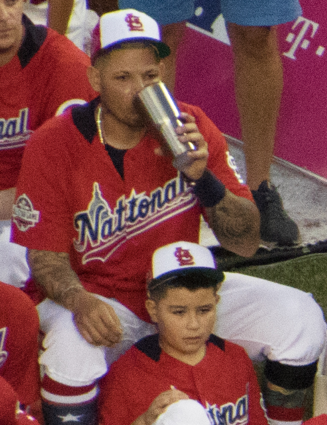 Members of the 2018 National League All-Star Team during the 2018 Major League Baseball Home Run Derby at Nationals Park.